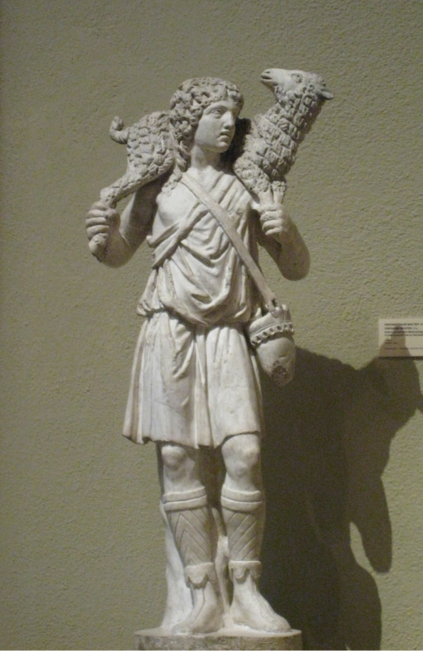 Good shepherd. Plaster cast in Pushkin museum